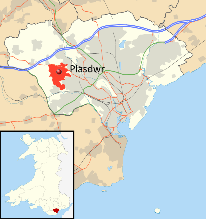 Location map of the newly planned 7000 home suburb of Plasdwr in northwest Cardiff, Wales